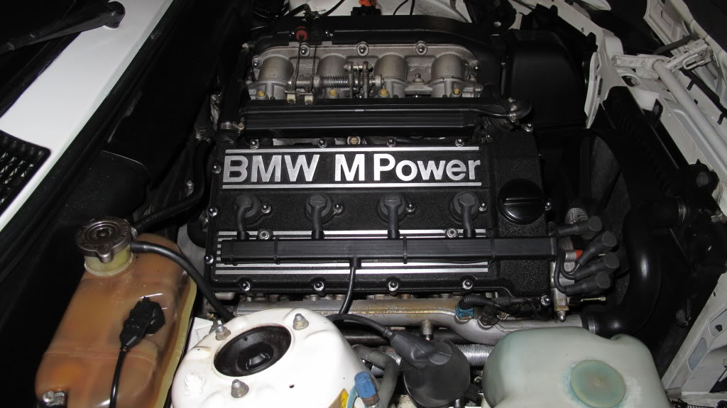 BMW S14 engine in a 1988 E30 M3